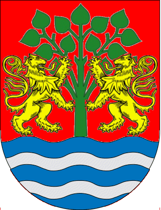 Blason de Alvaro Obertos